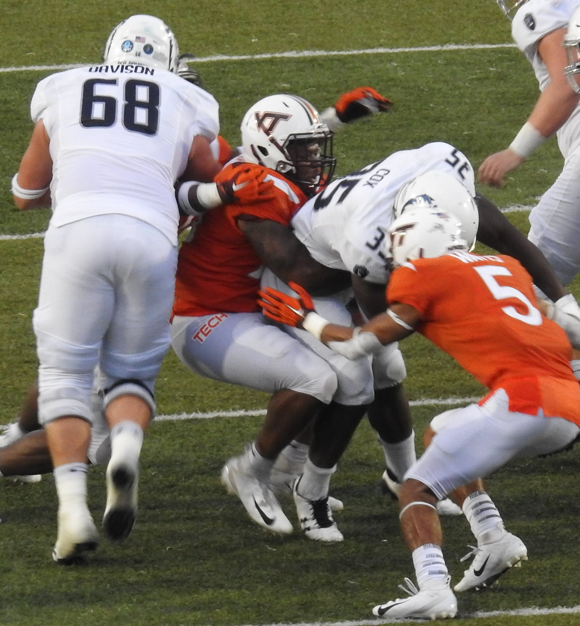 #35 Jeremy Cox is tackled following a five-yard run during Virginia Tech's 2018 game at Old Dominion University. Cox finished the day with 20 carries for 130 yards.